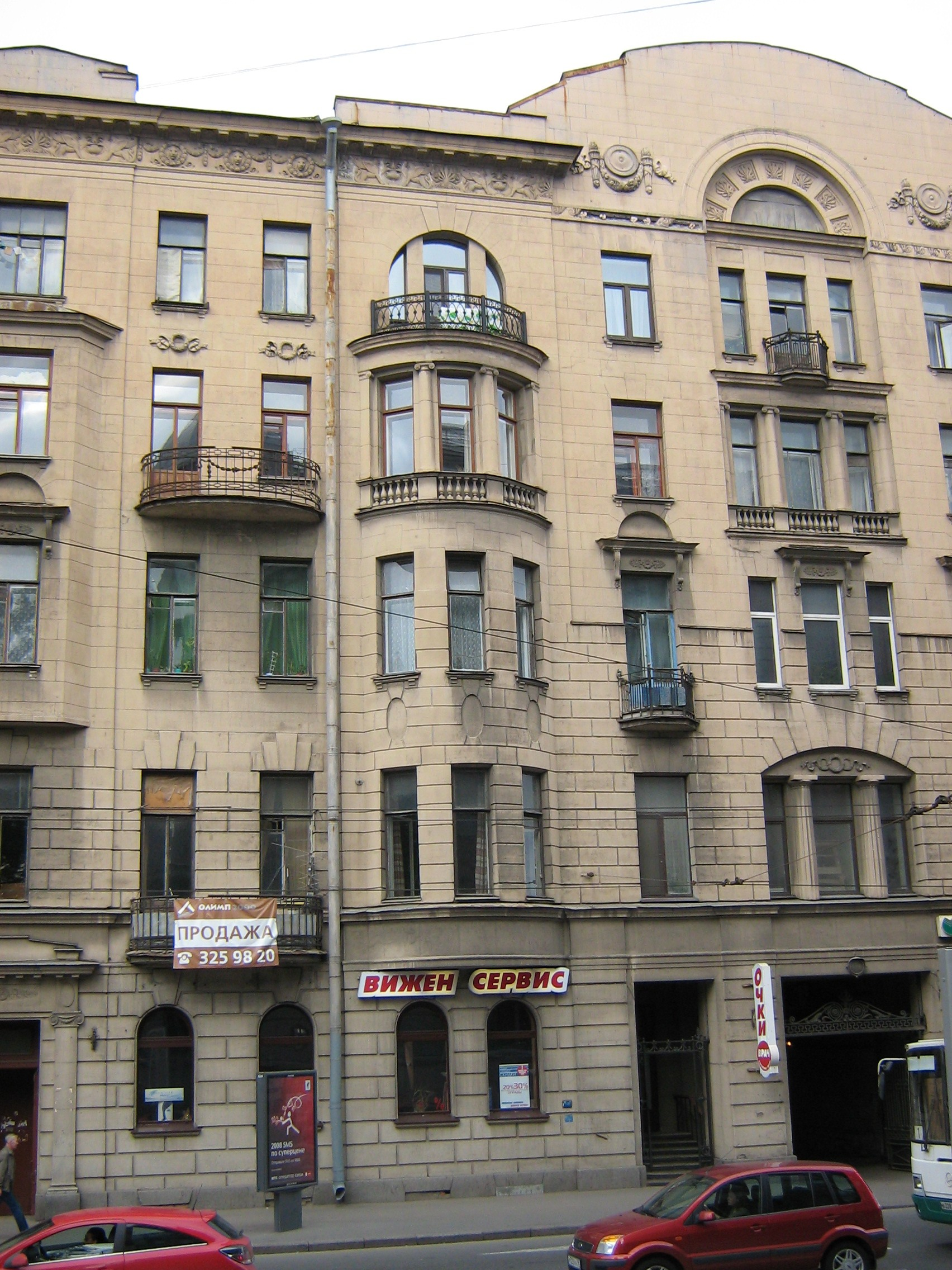 57, Kamennoostrovsky Prospekt, Saint-Petersburg, Russia. Architect Pavel Rezvy, 1910.